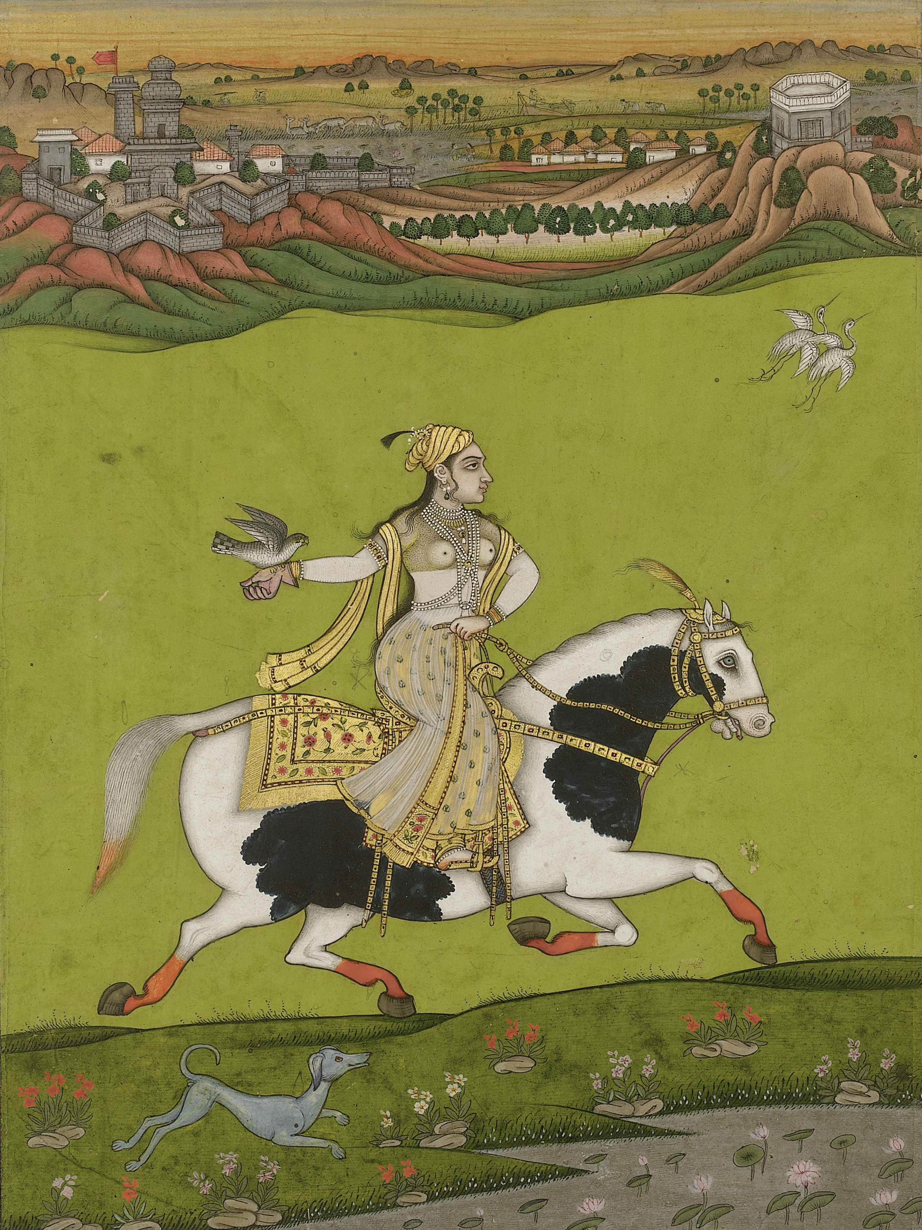 A female figure on horseback riding through a landsape with a hawk on her gloved right hand, accompanied by a dog.